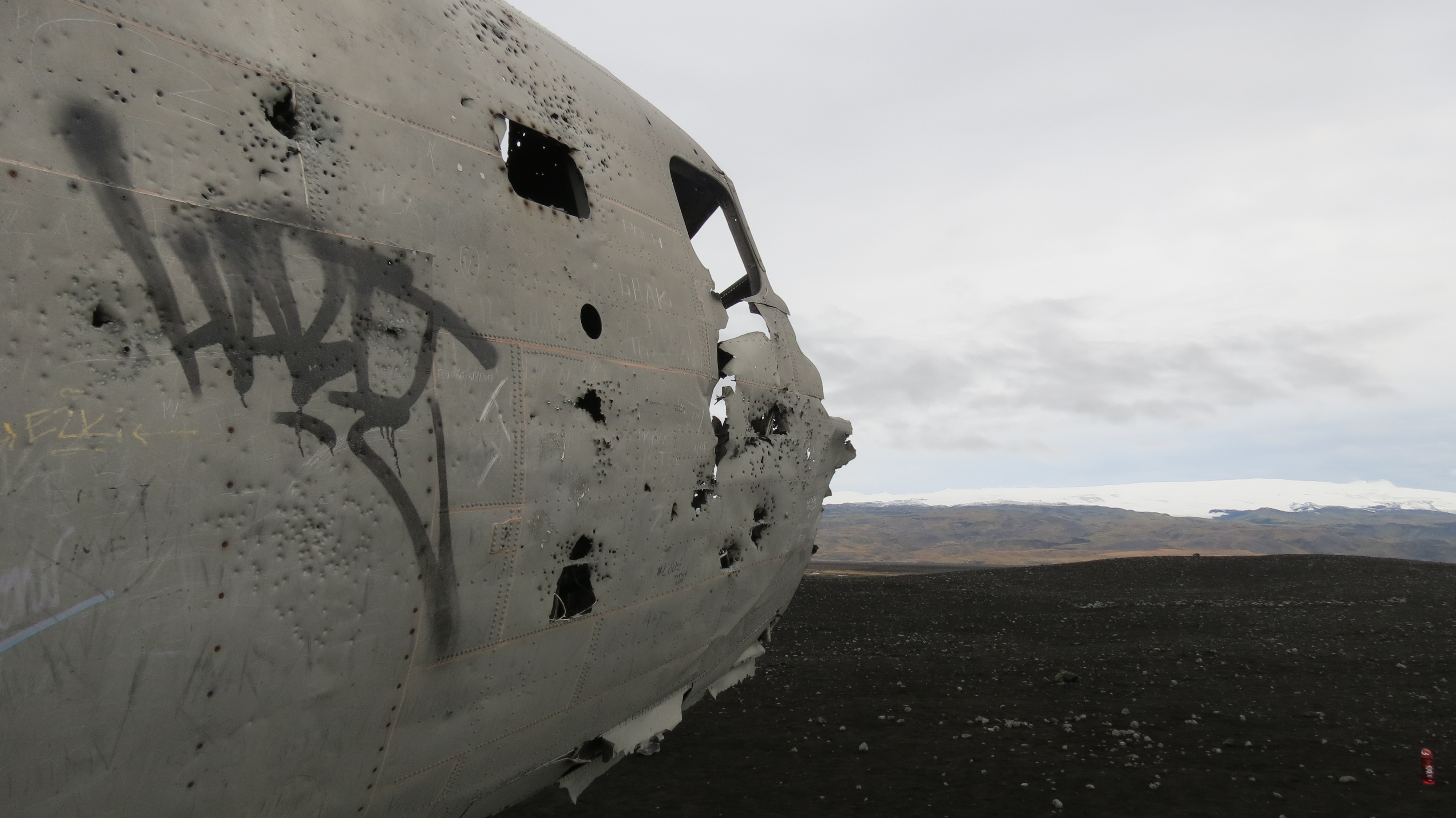 Sólheimasandur Plane Wreck, South Iceland